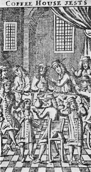 A wood cut of a seventeenth century English coffee house